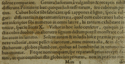 The first mention of sáhkku-type dice in writing. From Lapponia (1673) by Johannes Schefferus. The source of this information is given as "Olai Matthiæ Lapponis Tornensis", also known as Olaus Sirma.